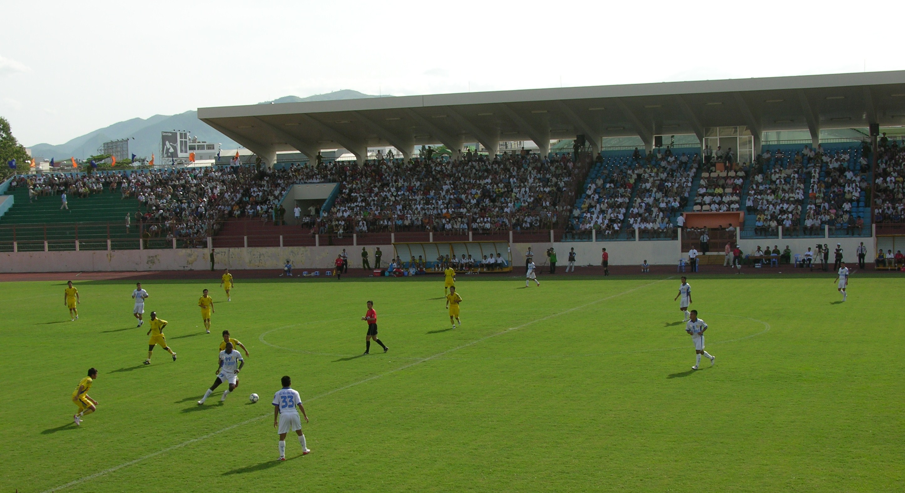 A football match between Khatoco Khánh Hòa and T&T Hà Nội in V-League 2009, Nha Trang Stadium.